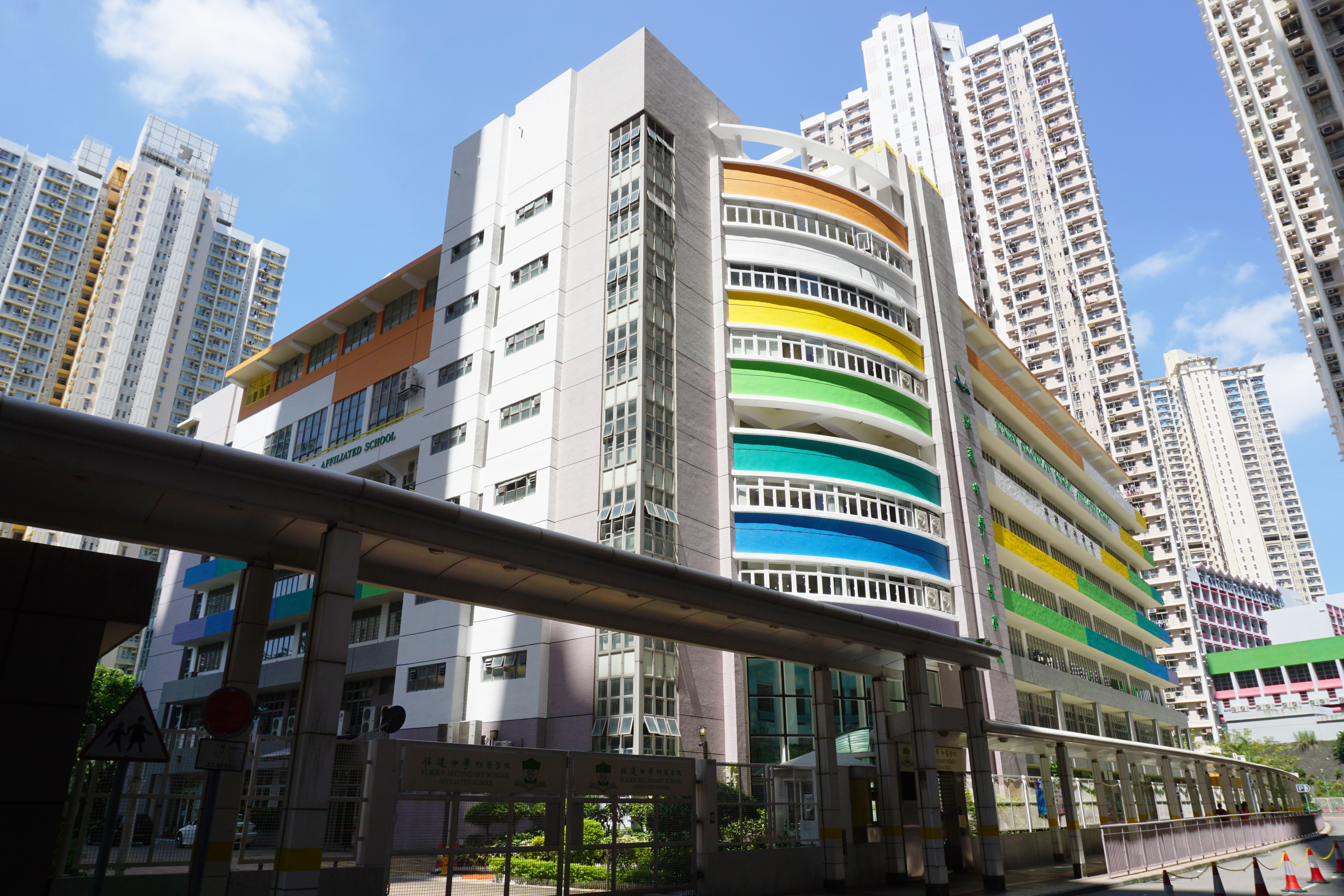 Fukien Secondary School Affiliated School in Yau Tong, Hong Kong.